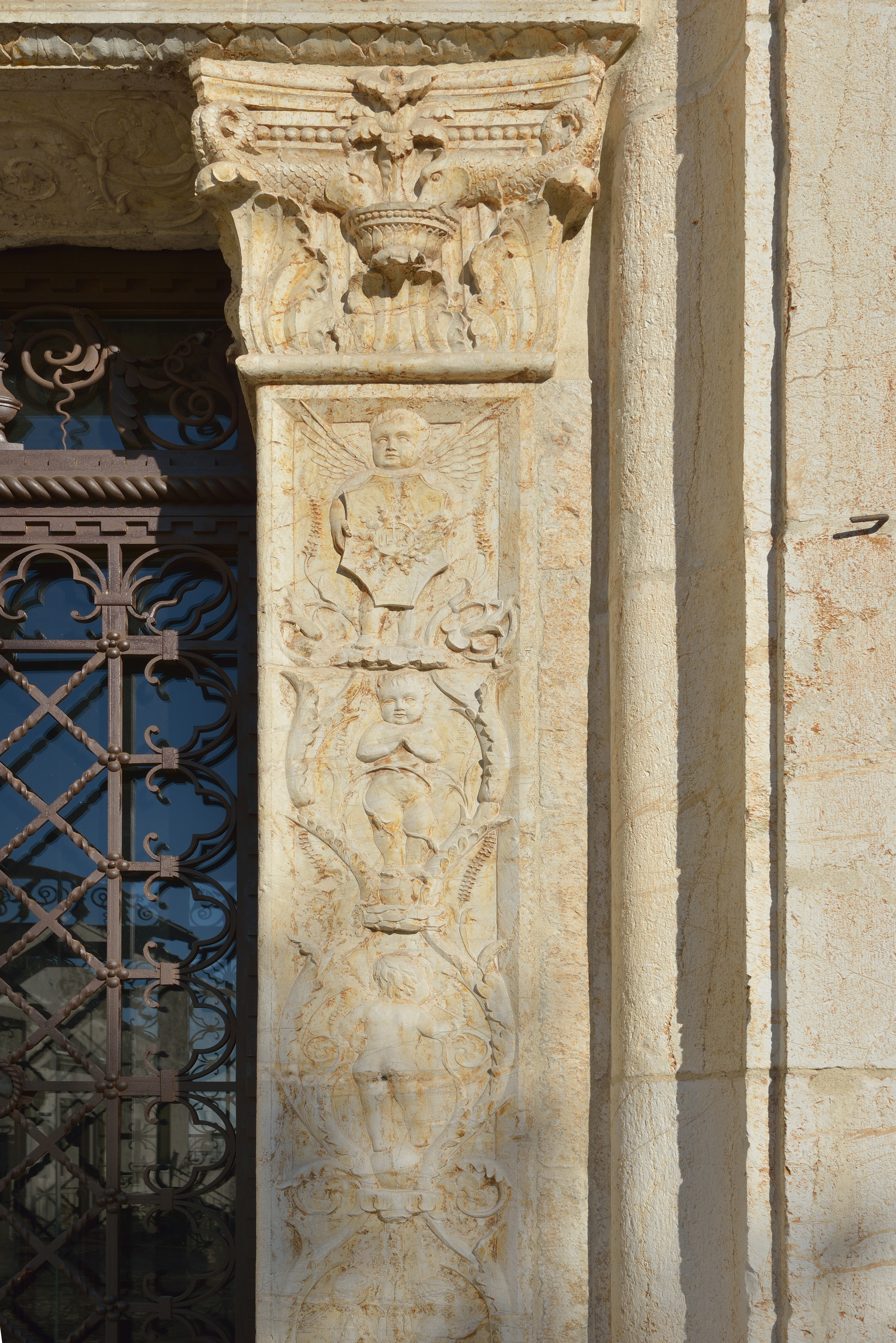 Lesene on main gate of the Christ Monastery church in Brescia